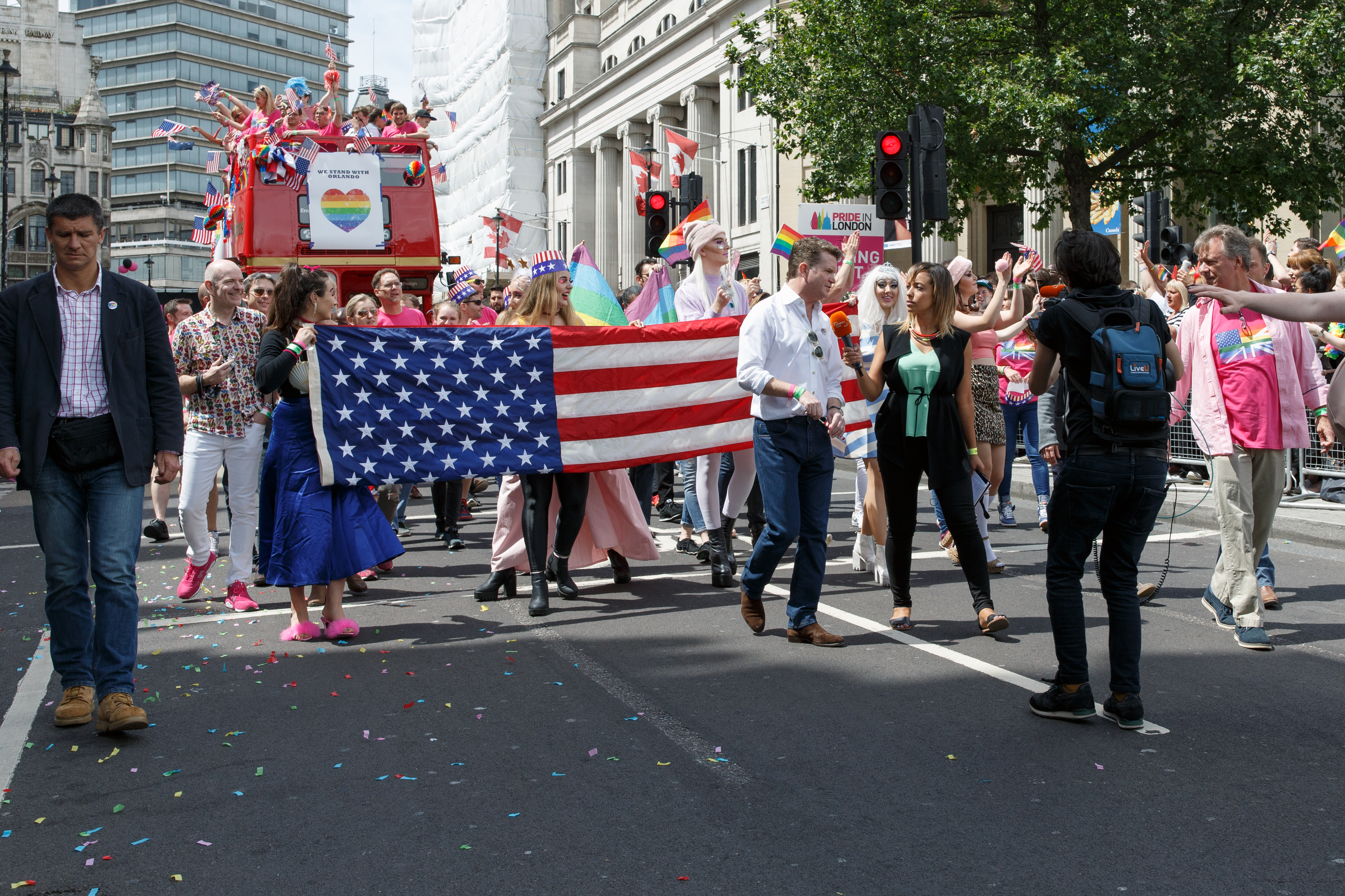 Matthew Barzun, the U.S. ambassador to the United Kingdom, participating in the Pride in London 2016 parade. He is being interviewed by a reporter from London Live.